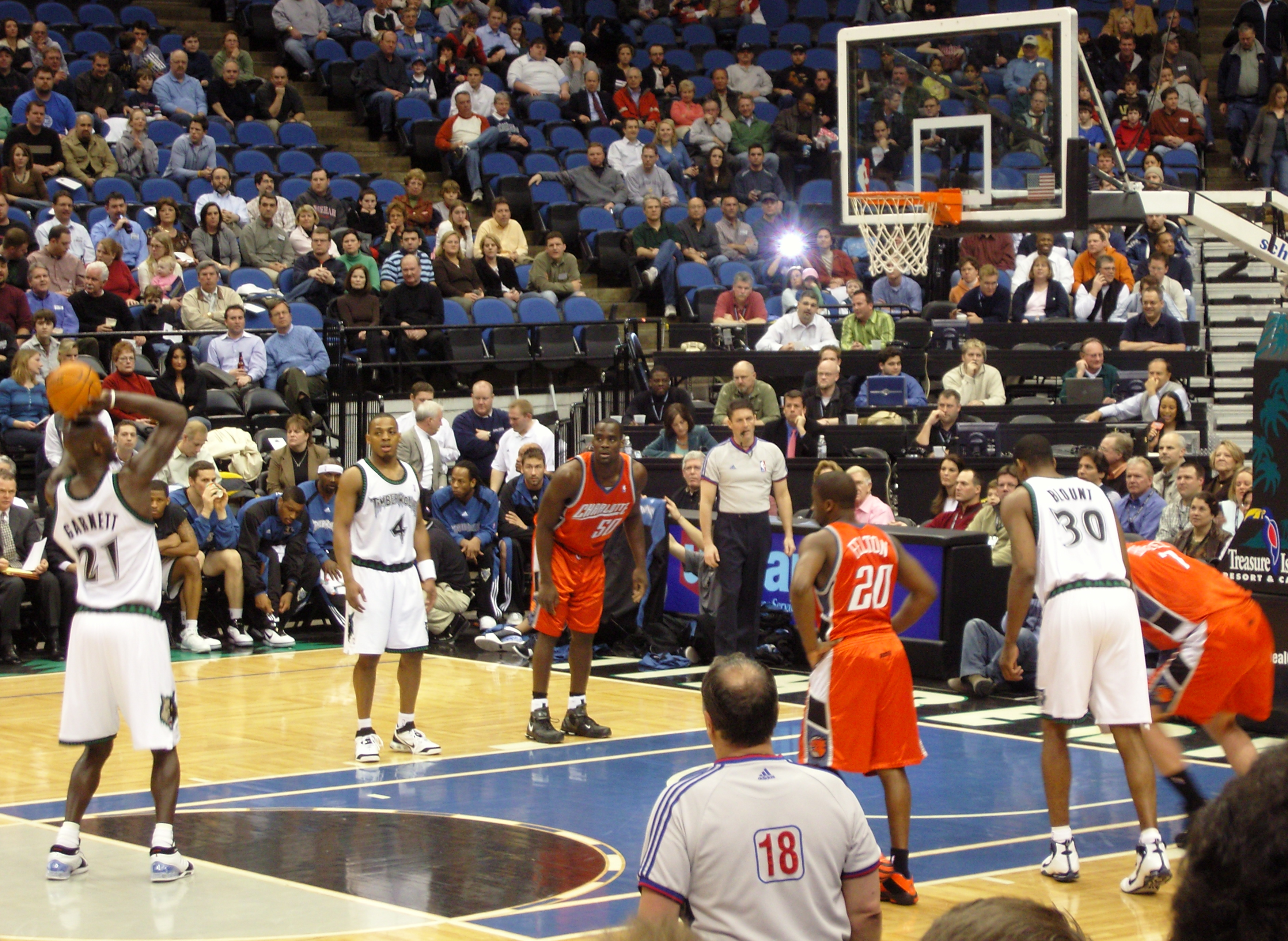 Kevin Garnett prepares to shoot a free throw